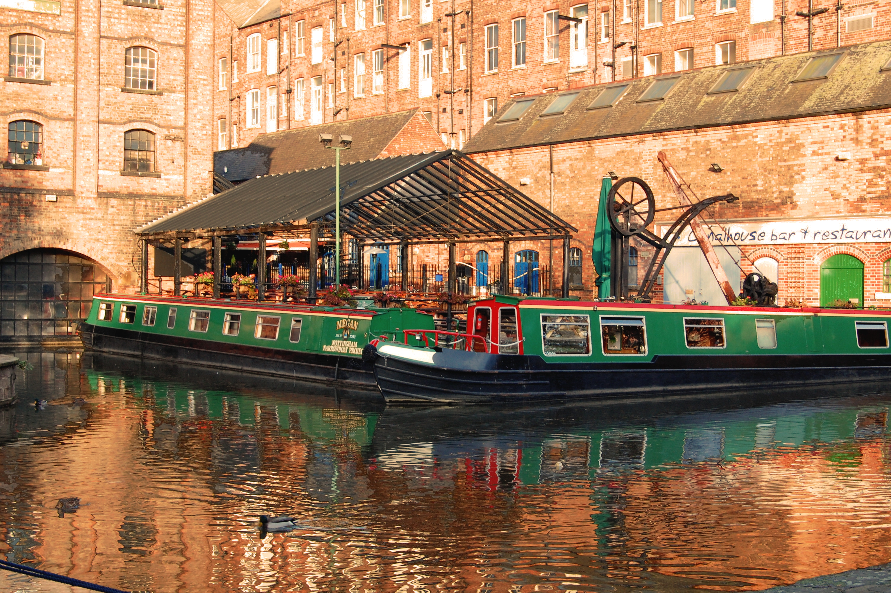 The following is the author's description of the photograph quoted directly from the photograph's Flickr page."A rare sunny Sunday morning in November. "